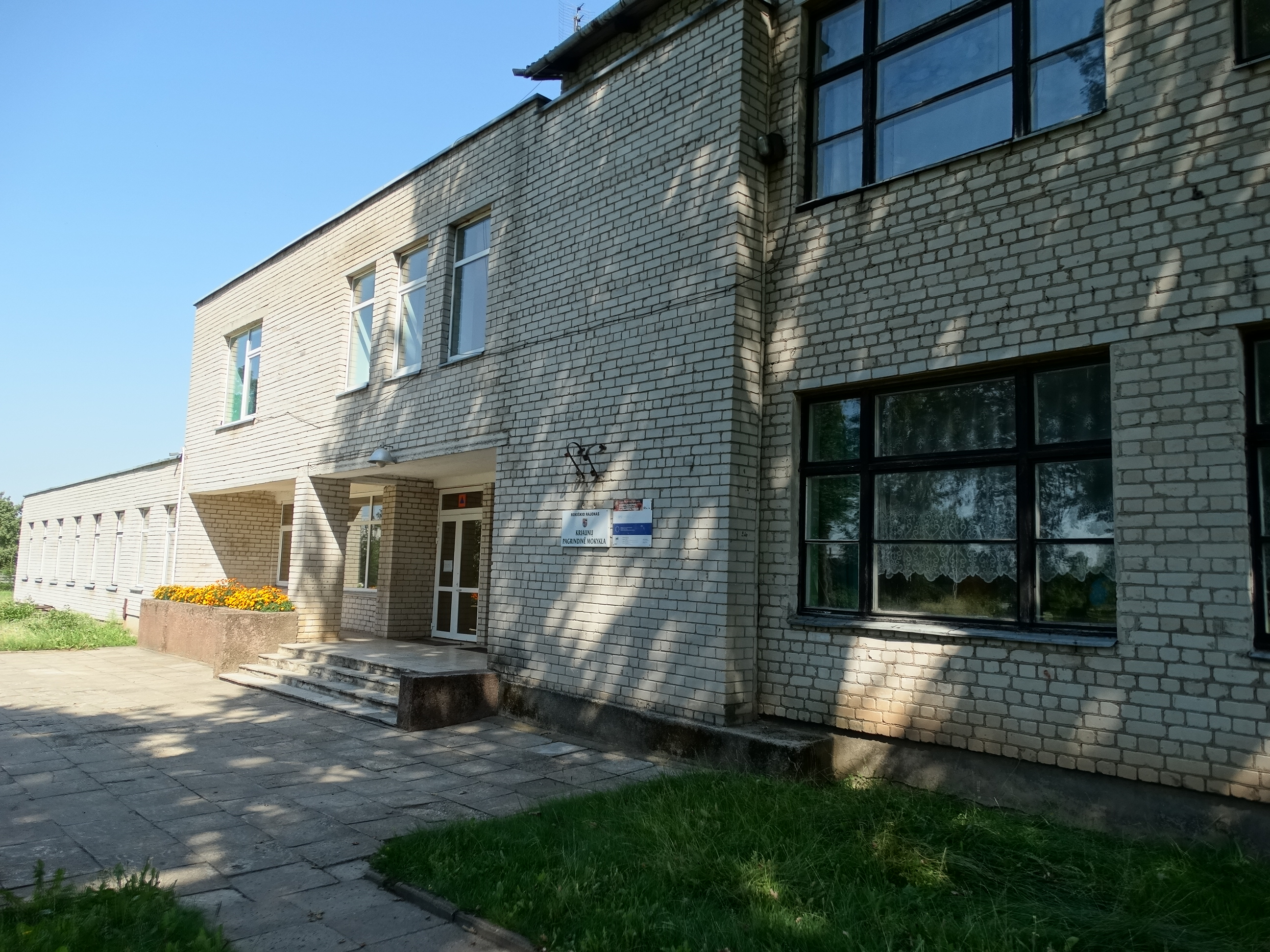 School Kriaunos, Rokiškis District, Lithuania